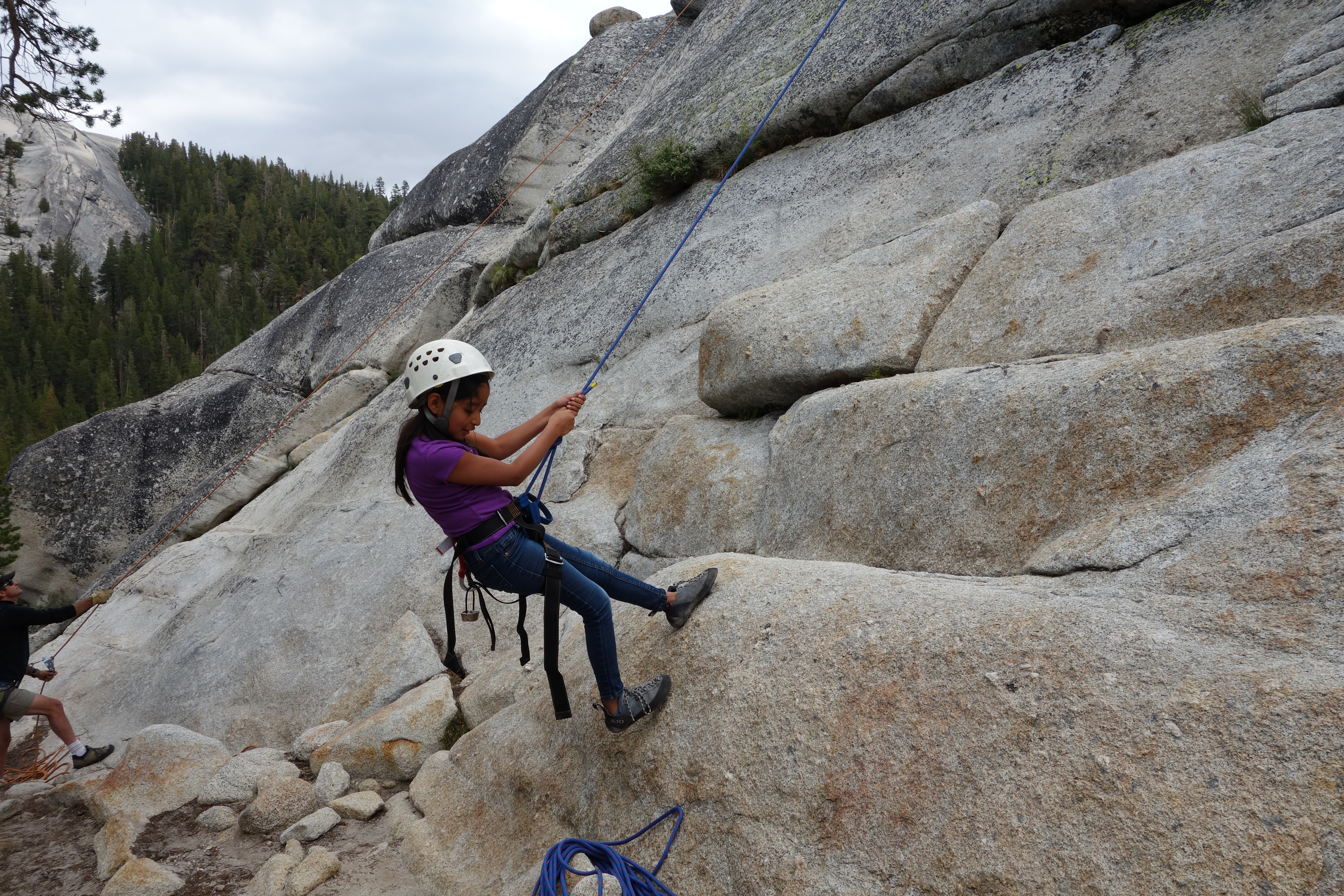 Firstbloom campers with the Bishop Paiute Tribe were treated to an afternoon of rock climbing with the Yosemite Mountaineering School and Guide Service at Puppy Dome in Toulumne Meadows, Yosemite National Park. Photo by USFWS.